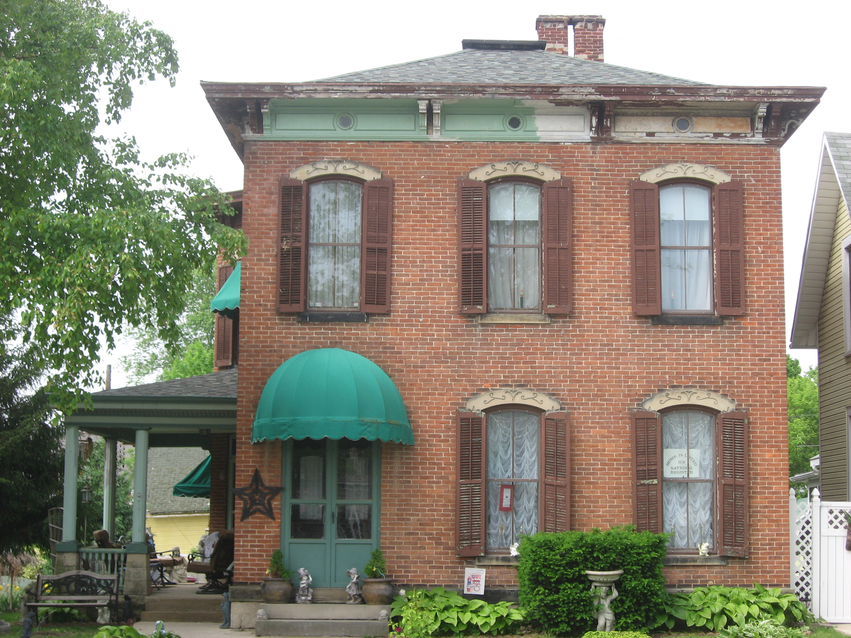 Front of the Dr. Clark House, located at 21 N. Main Street (State Route 29) in Mechanicsburg, Ohio, United States. Built in 1875, it is listed on the National Register of Historic Places.